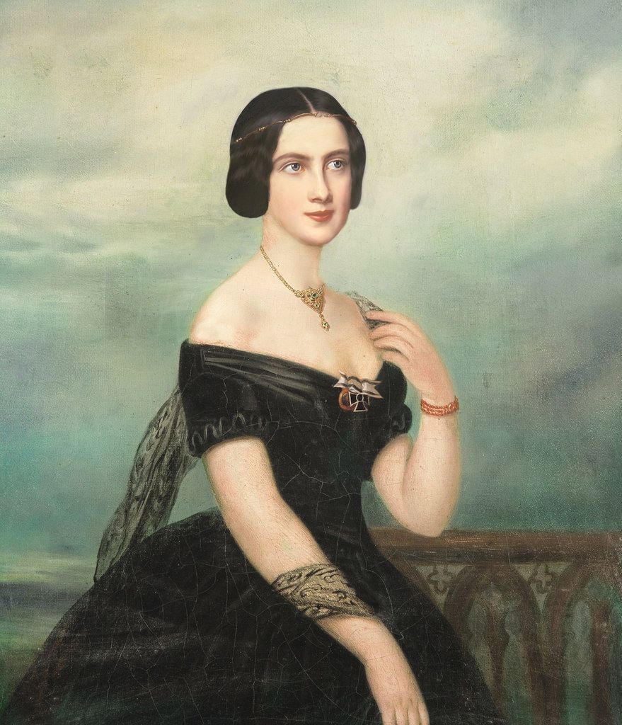 Marie, Queen of Bavaria (nee Princess of Prussia)